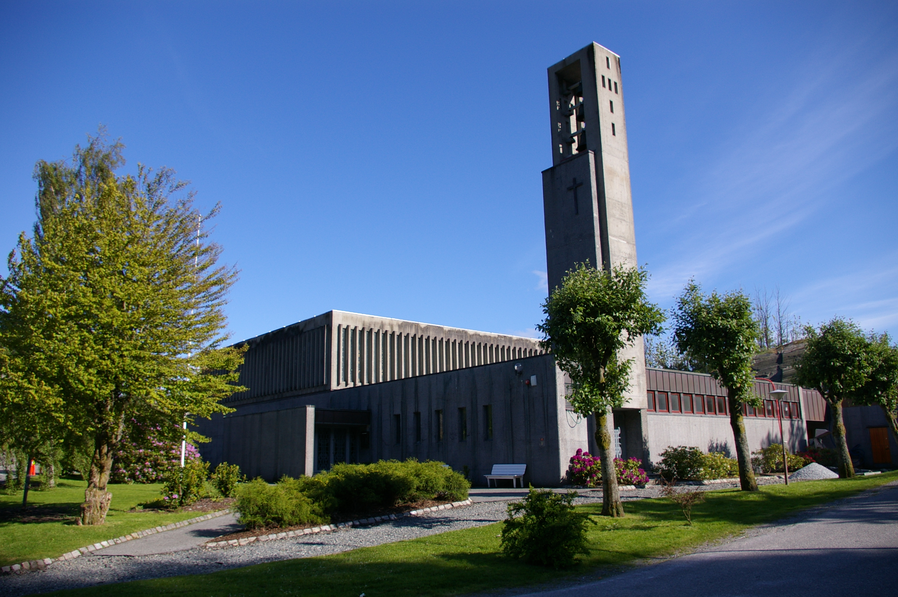 Strusshamn kirke, Askøy Norway. Photo summer 2009